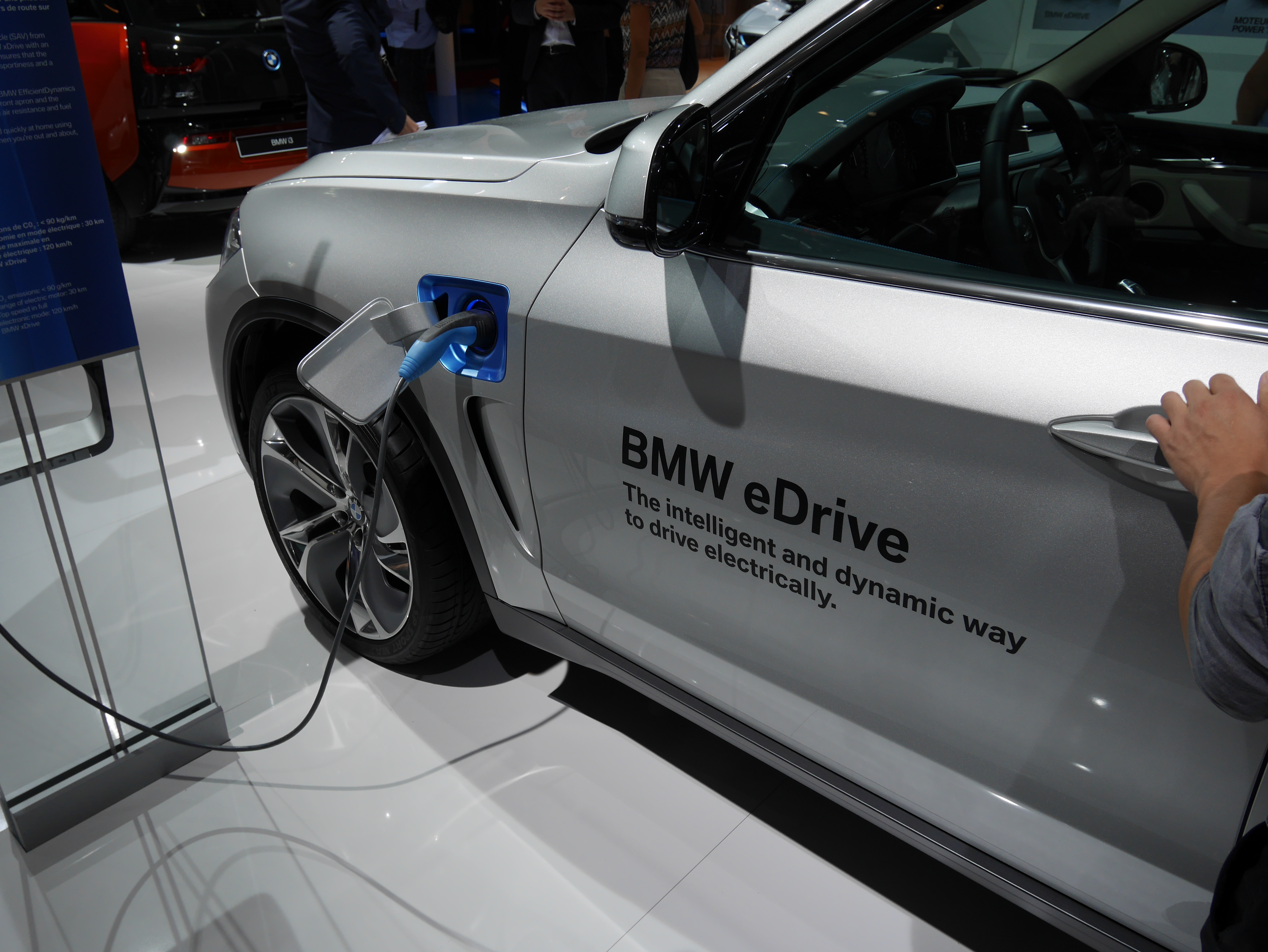 BMW X5 eDrive concept plug-in hybrid